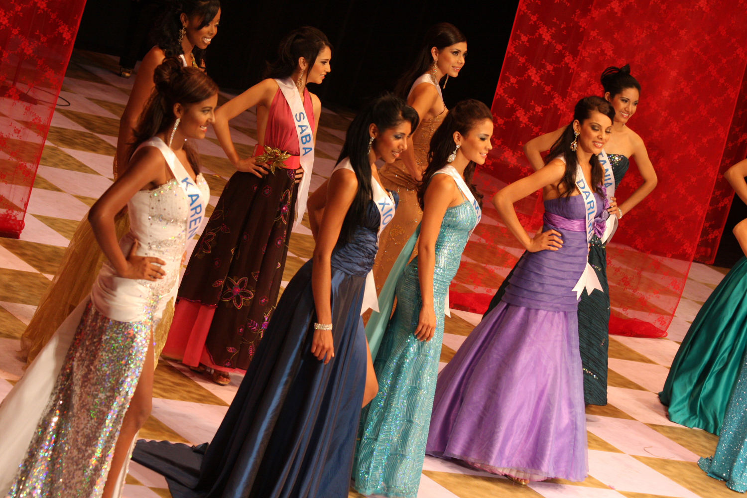 Miss Nicaragua Candidates during the ceremony at the Ruben Dario National Theater.